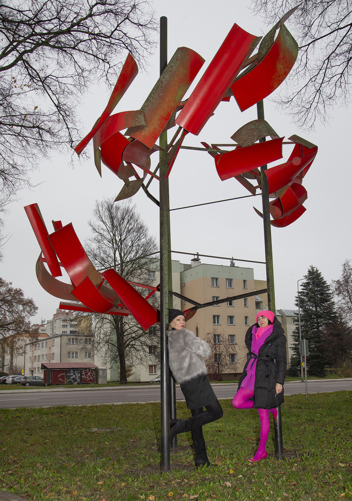 Magdalena Więcek-Wnuk's spatial form was created during the 1st Biennial of Spatial Forms (1965) in Elbląg ( in collaboration with Z. Czarnecki, E. Kopryk, J. Nowacki, J. Muzalewski, S. Rokita, E. Grzybowiński). It is located at Rycerska street in Elbląg. It is 6.5 meters high. In the foreground, visual artists: Iwona Demko and Agata Zbylut, while working on the project entitled "Congress of dreamers / Kongres Marzycielek” carried out at the Art Center Gallery EL.